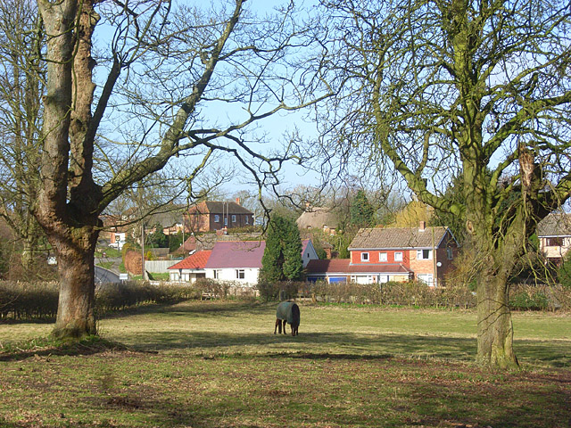 Pasture and houses, Wickham In a field to the east of the village's crossroads. The B4000 is just visible to the left.